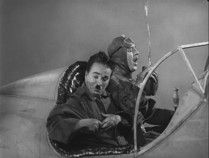 Charlie Chaplin from the film The Great Dictator